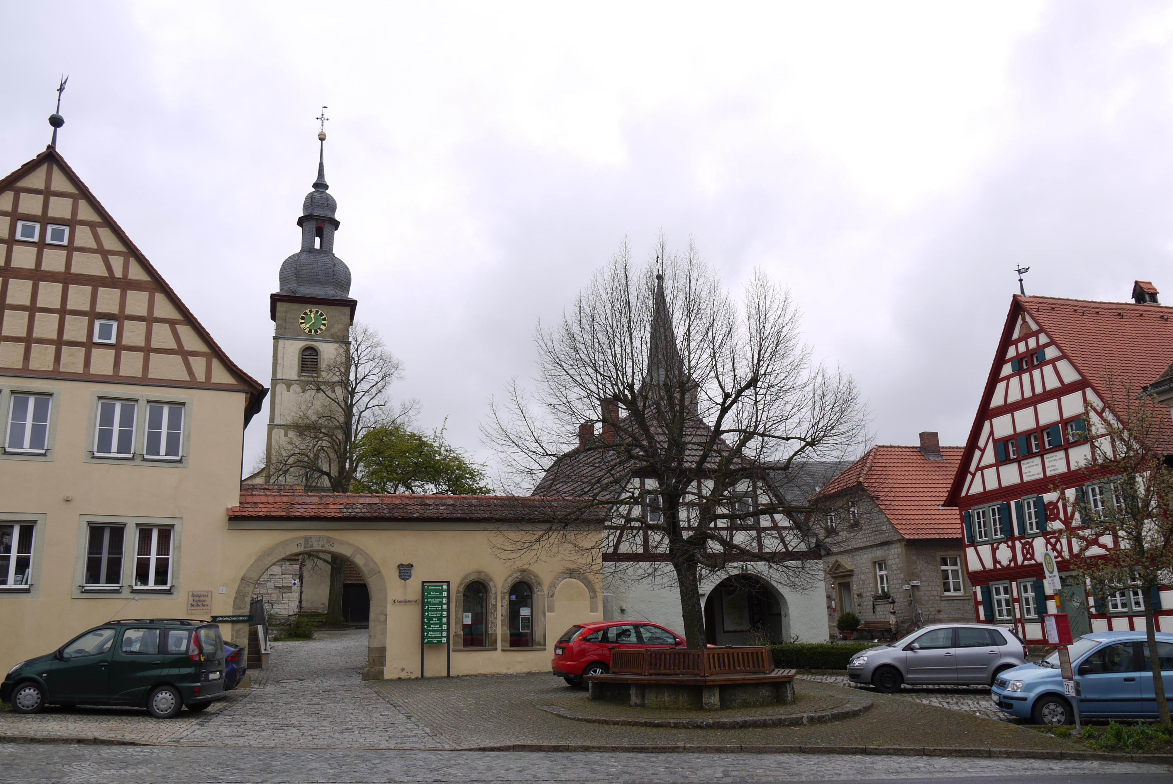 Marketplace in Hüttenheim